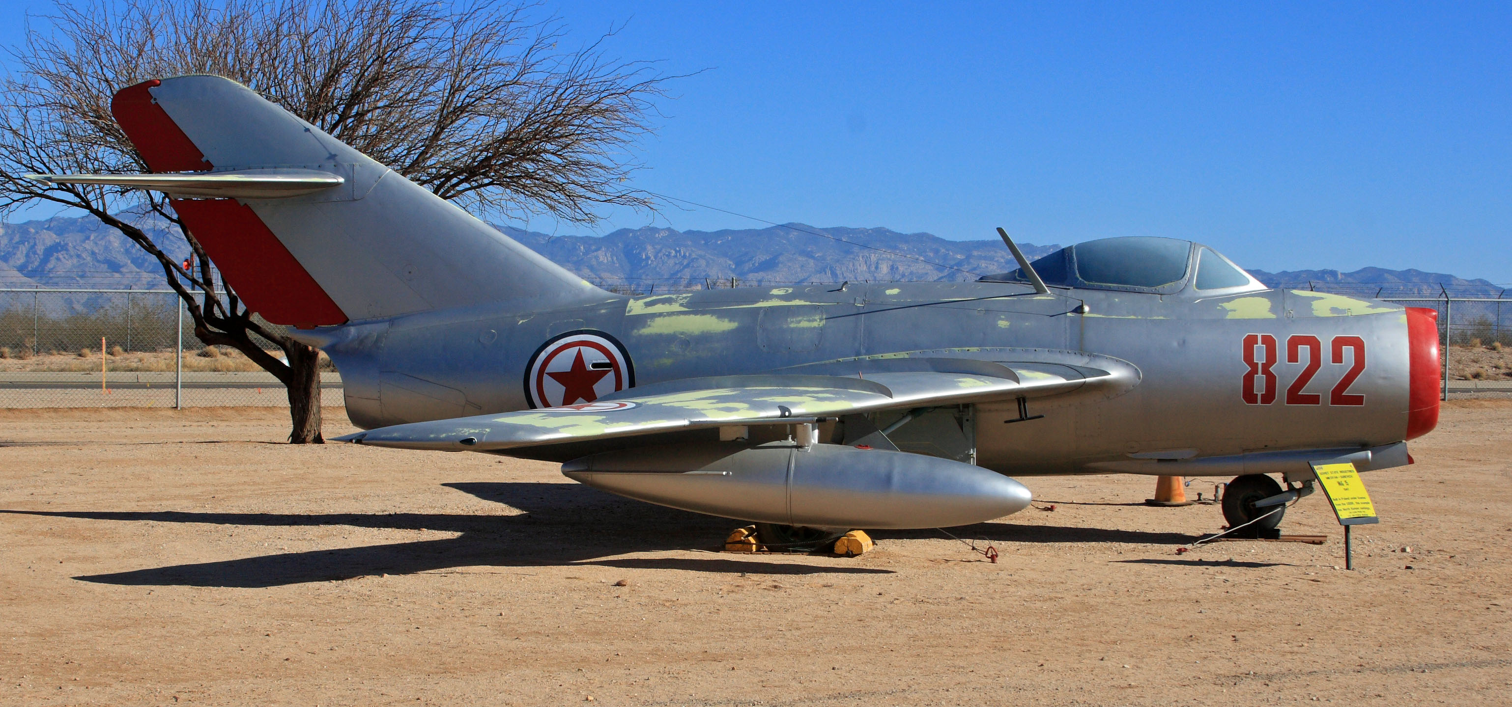 I had a chance to visit this great aviation and space museum in February 2011. This place is huge and it has a very extensive collection of airplanes - this is probably the largest collection I've ever seen in one place. Planes are stored in several hangers and also on a huge apron. If you are in the Tucson area and have any interest in aviation this is a must see stop!